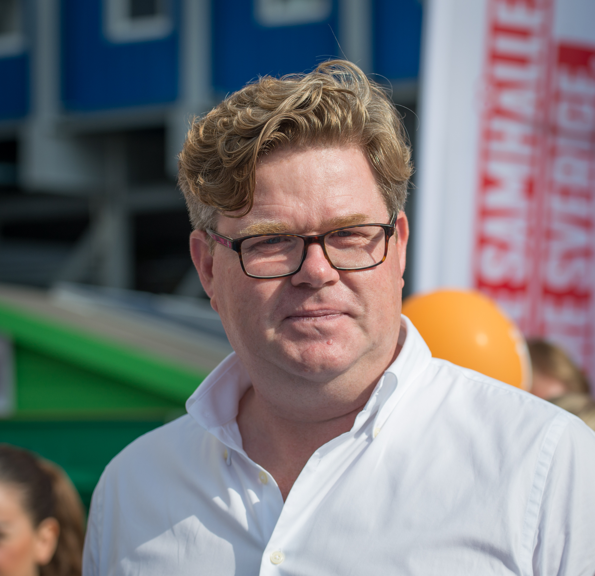 Gunnar Strömmer at Sergel's square in Stockholm the day before the election day, September 8, 2018.